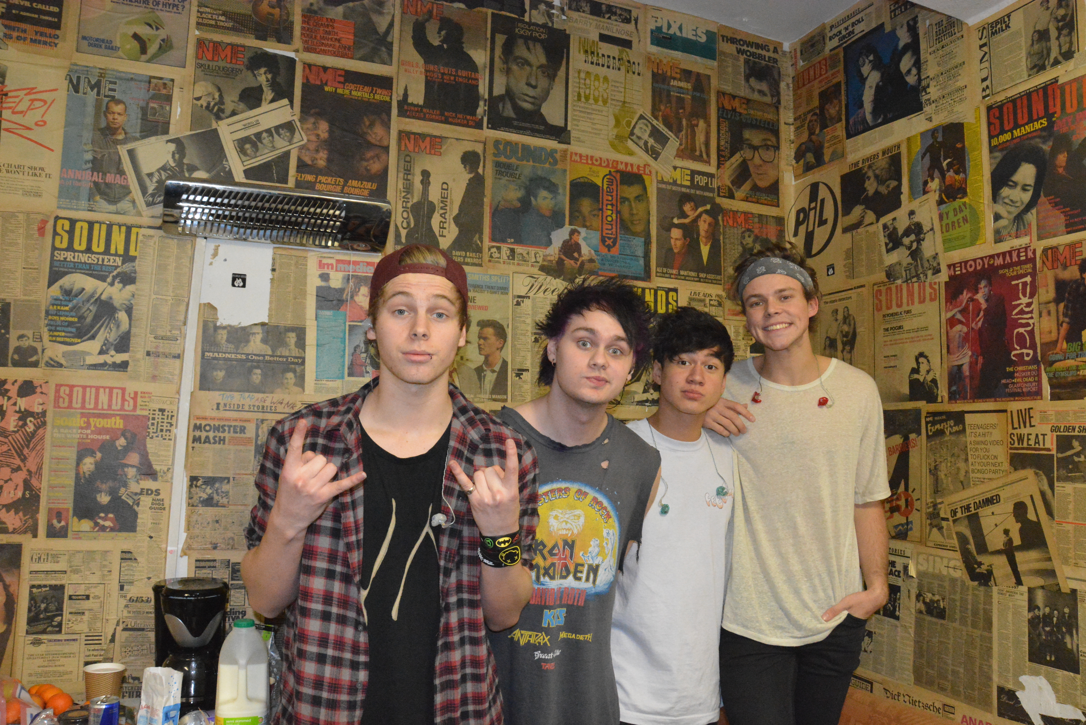 Five Seconds of Summer backstage on their 2014 UK Tour.